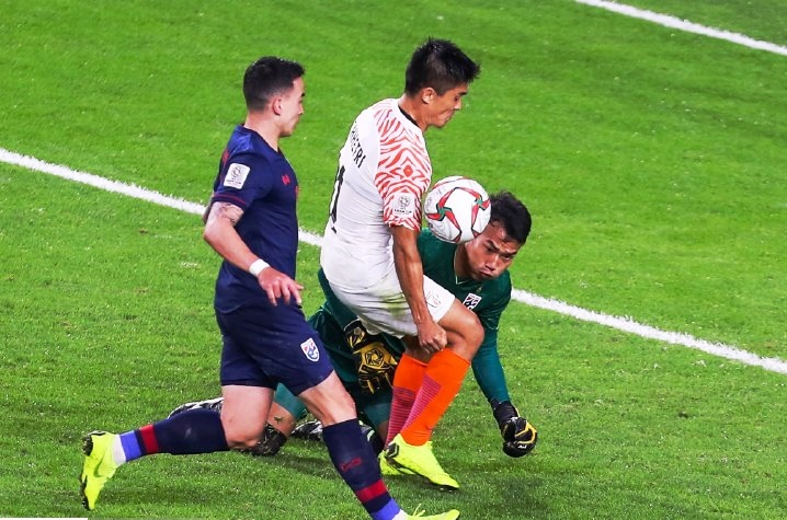 Sunil Chhetri at a melee infront of Thailand goalpost during Group match of 2019 AFC Asian Cup